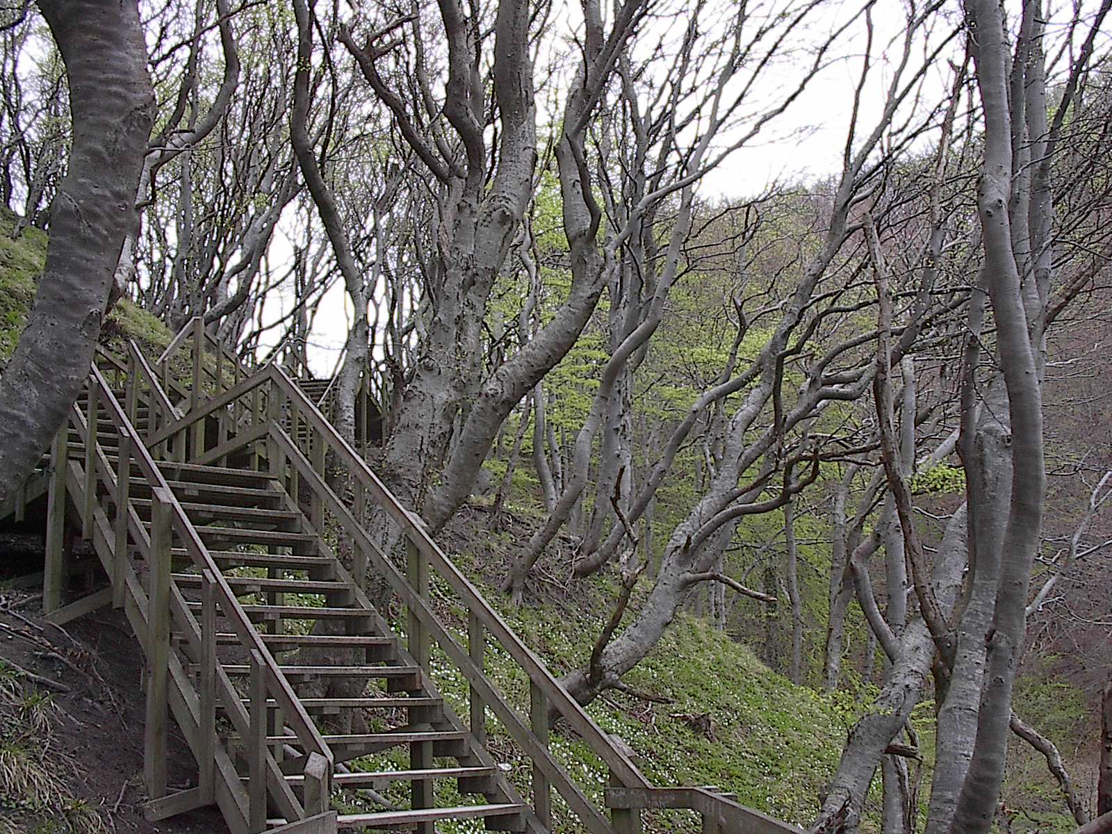 Møns Klint, Denmark: A view up the stairs from the beach to the visitors center, showing beech trees